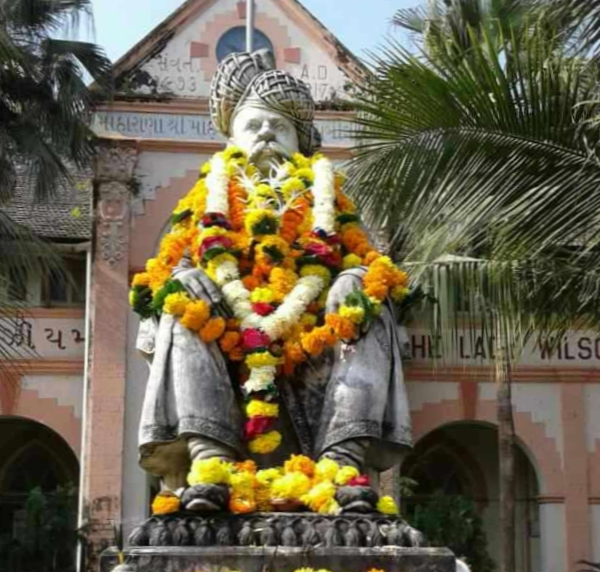 King of Dharampur MohanDevji photo taken by hobbyist Rajendra Kumar Pavar.